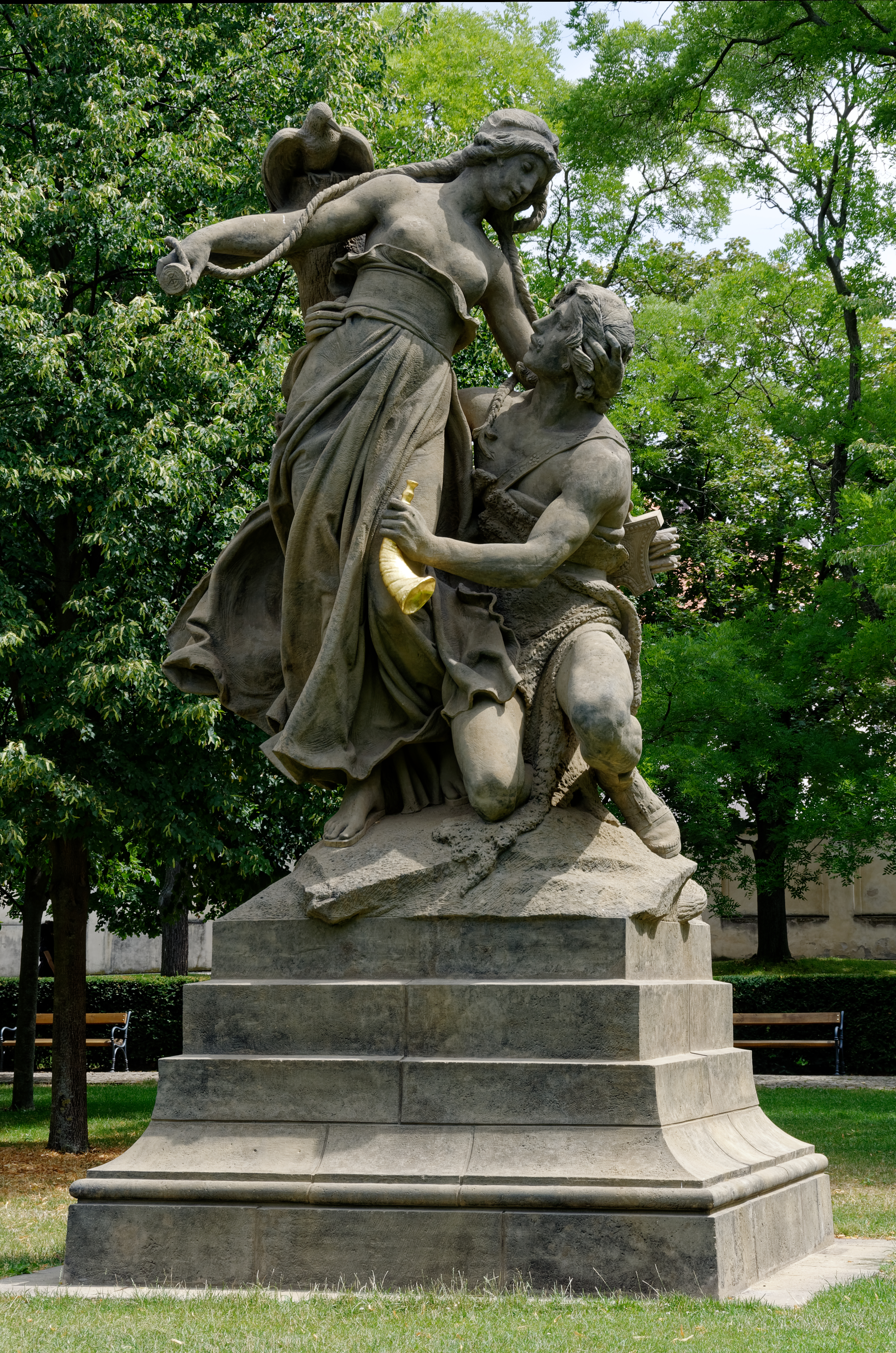 Ctirad and Šárka, Vyšehrad, Prague, Czech Republic. Sculpture designed by Josef Václav Myslbek in 1881 and finished in 1895 depicts beautiful Šárka and brave Ctirad, two characters of the Maidens war episode from old Czech legends. It was originally placed at the Palacký Bridge, but was transferred to Vyšehrad park in 1947 as the bridge suffered heavy damage during US air raid in February 1945.